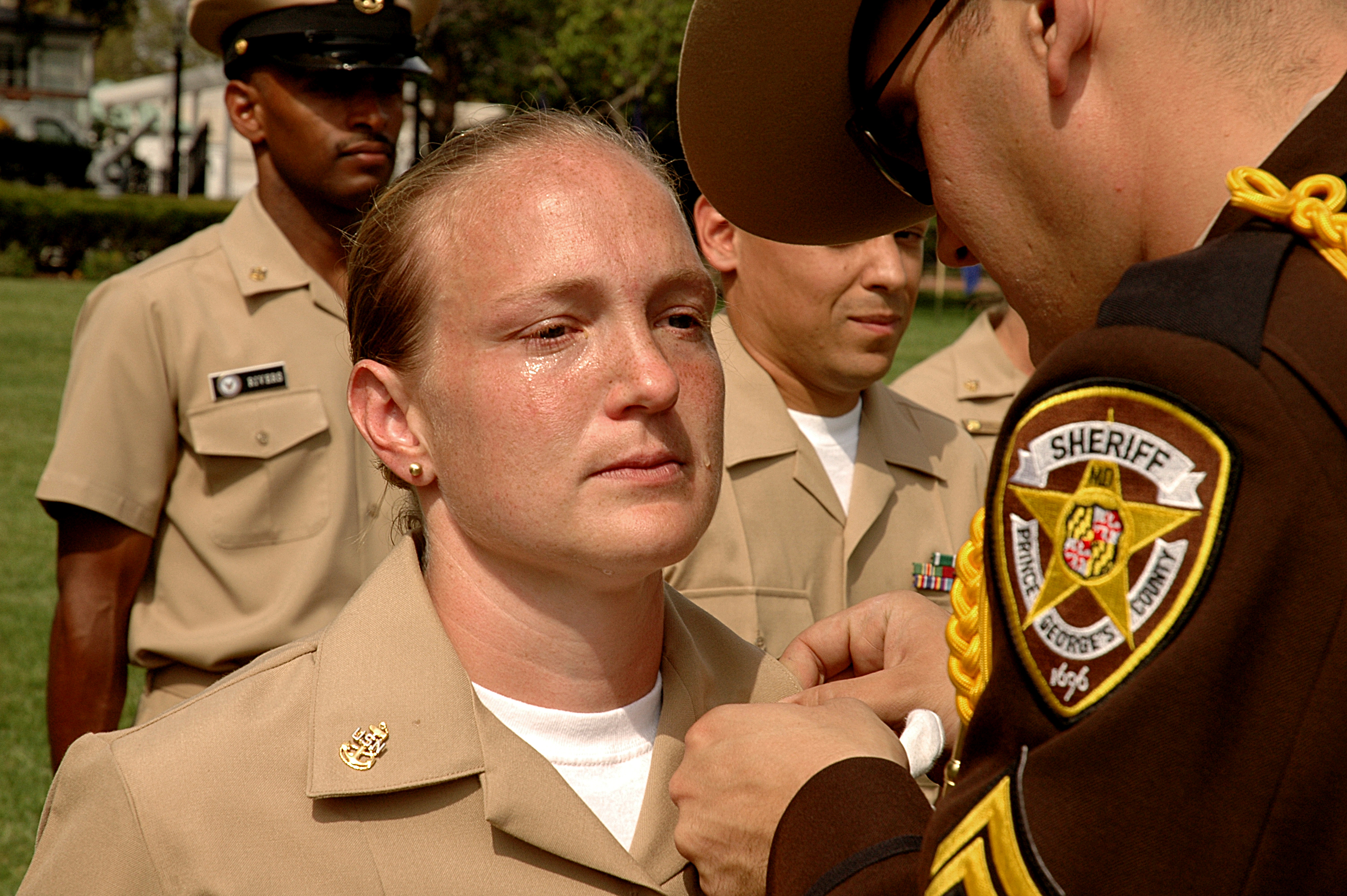 WASHINGTON (Sept. 16, 2008) Chief Yeoman Melissa Salley stands at attention as her husband, Prince George's County Deputy Sheriff Corporal James Salley pins anchors on her collar, signifying her advancement to the rank of chief petty officer. The pinning ceremony was held at the Washington Navy Yard, the oldest shore establishment in the United States Navy and included 63 new chief petty officers, their friends and family and the Chief of Naval Operations, Admiral Gary Roughead.